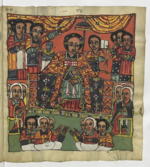 Emperor Iyasu I of Ethiopia with his court as representend in a 19th century manuscript.